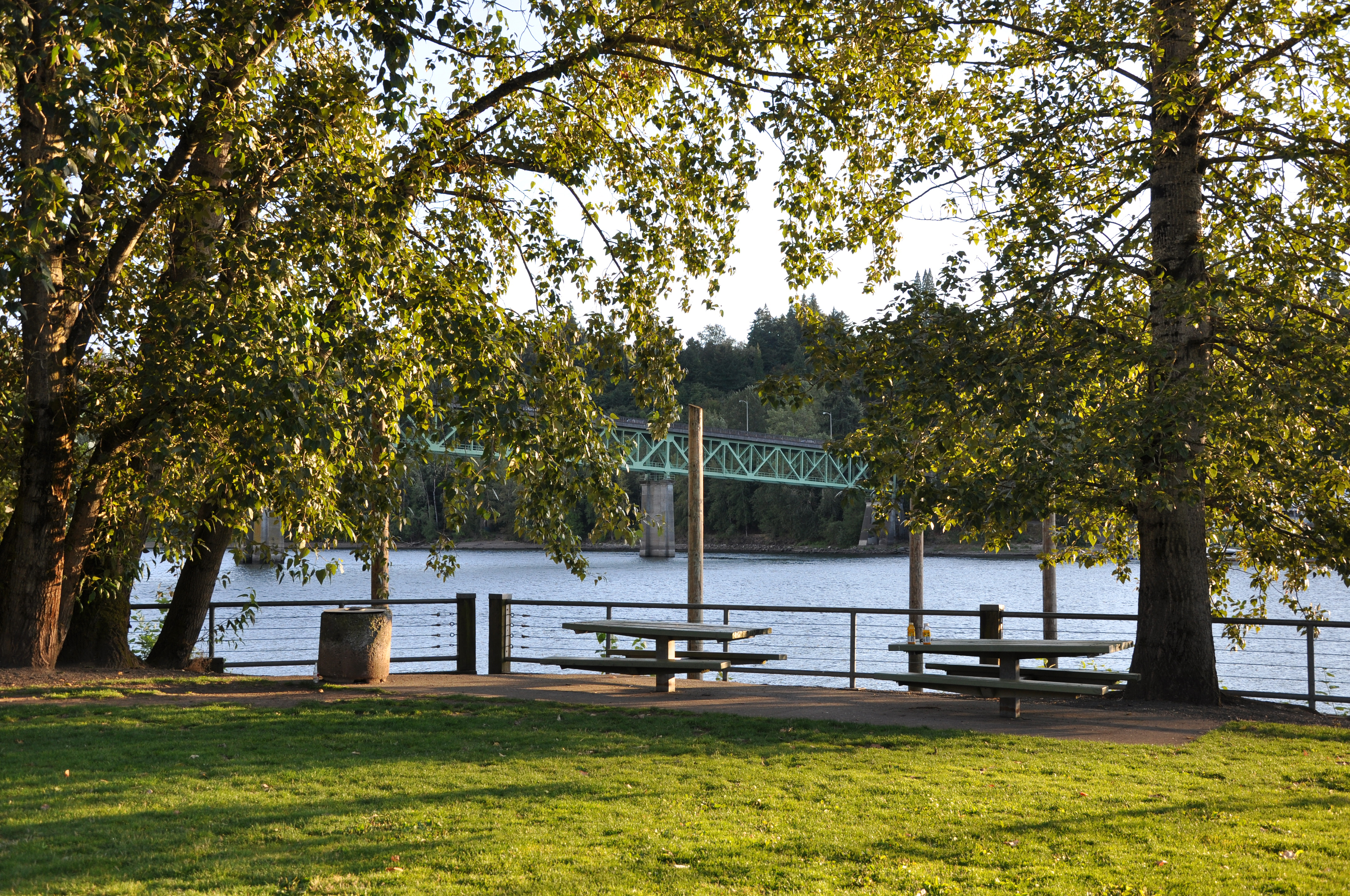 Sellwood Waterfront Park in southeast Portland, Oregon, in the United States. The Sellwood Bridge over the Willamette River is in the background.